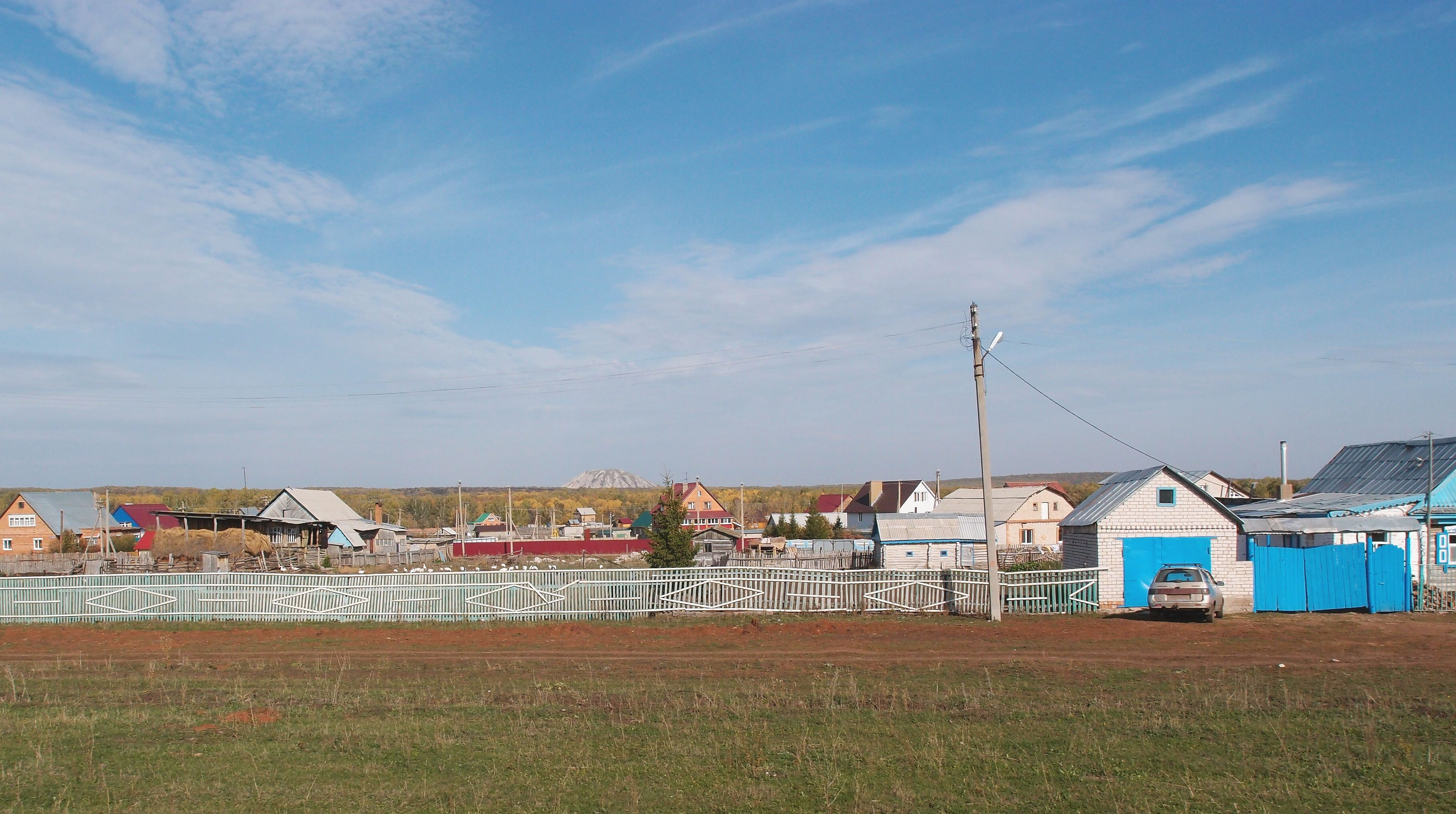 Ishimbai rayon